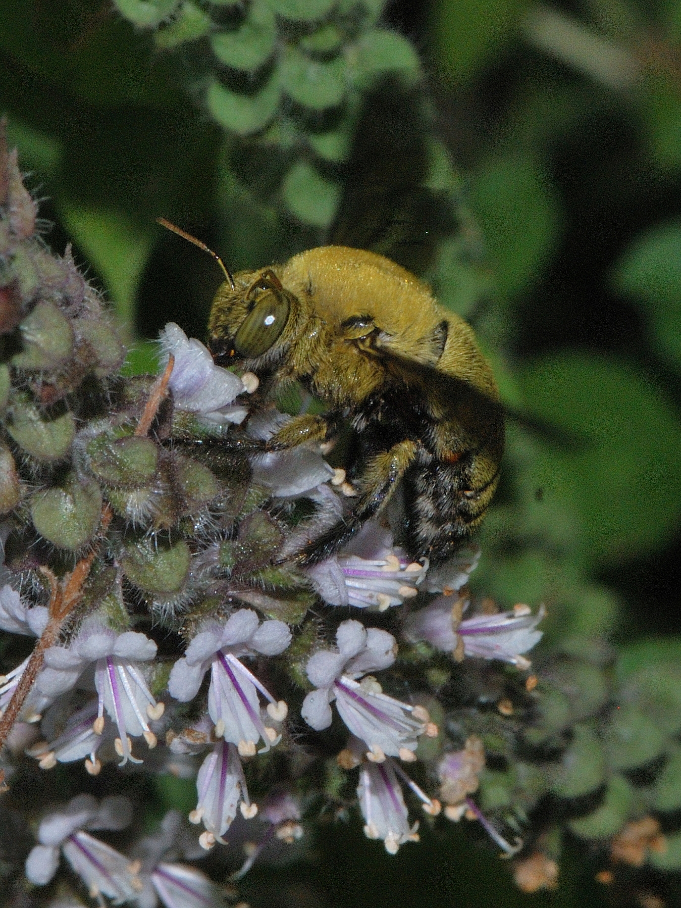 Male of Xylocopa pubescens foraging on basil, Tel Aviv, Israel, August 10, 2010.